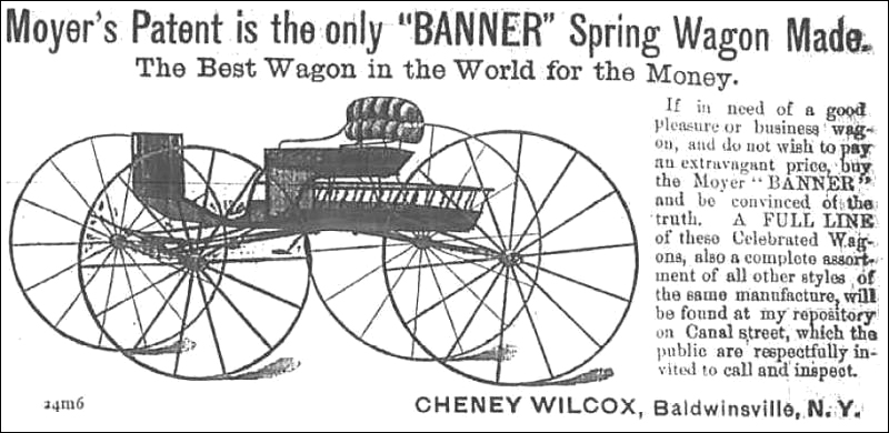 Moyer Carriage Company Advertisement